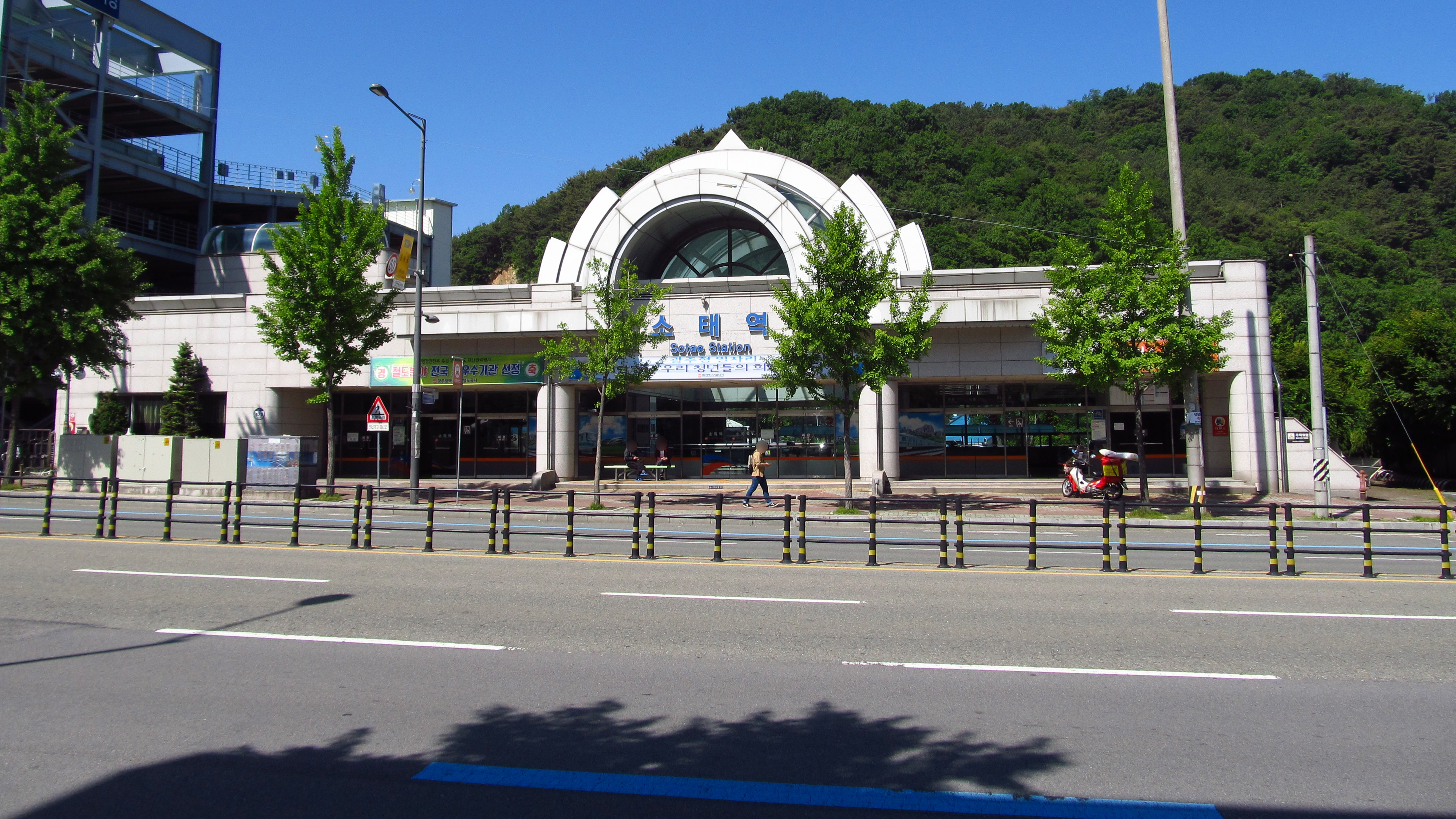 The no.1 entrance to Sotae Station on Gwangju Metro Line 1 in Dong-gu, Gwangju, Republic of Korea(South Korea)